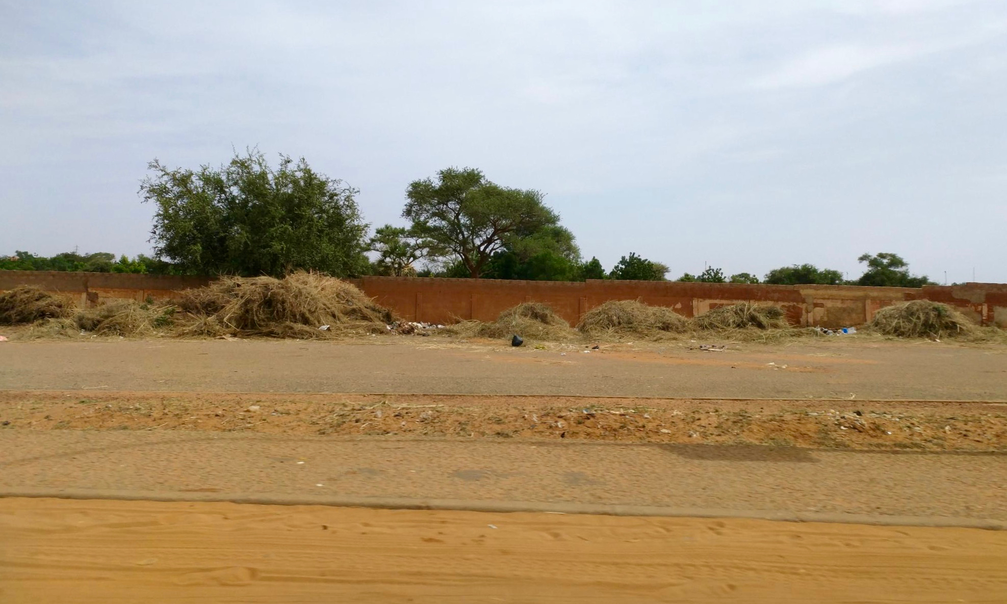 Southwestern wall of the Muslim cemetery in Yantala, Niamey.